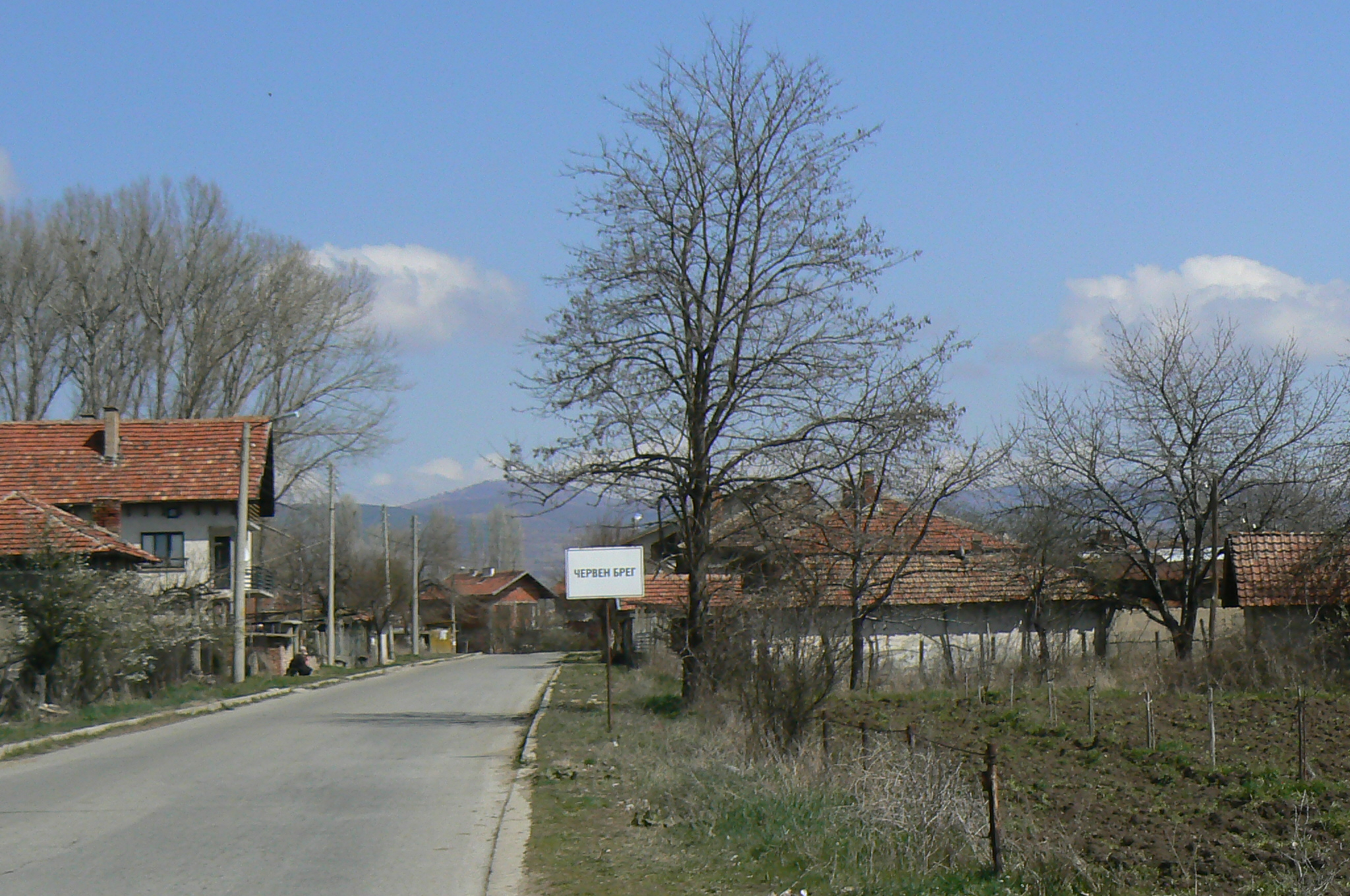 Cherven breg village, Kyustendil district, Bulgaria.